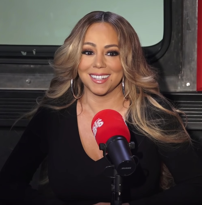 Mariah Carey Talks New Music, Rebirth of Glitter and Listening to WBLS Throughout The Years